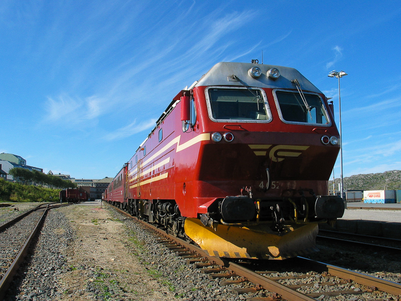 NSB passenger train with a Di4 diesel electric locomotive up front at Bodø st., ready for the long trip to Trondheim